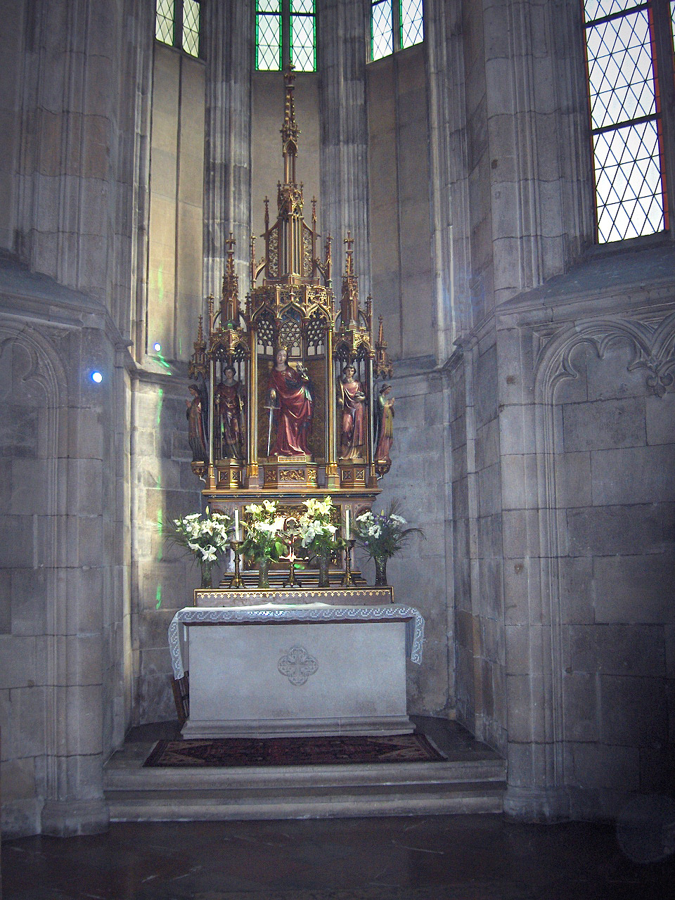 St. Catherine's chapel in the Stephansdom in Vienna, Austria